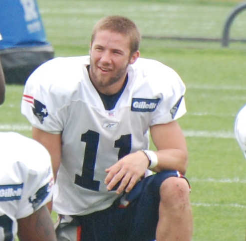 New England Patriots training camp 2009, mostly wide receivers. L-R: #81 Randy Moss, #88 Sam Aiken, #13 Joey Galloway, #11 Julian Edelman, #17 Greg Lewis, #48 Nathan Hodel, #41 Ray Ventrone